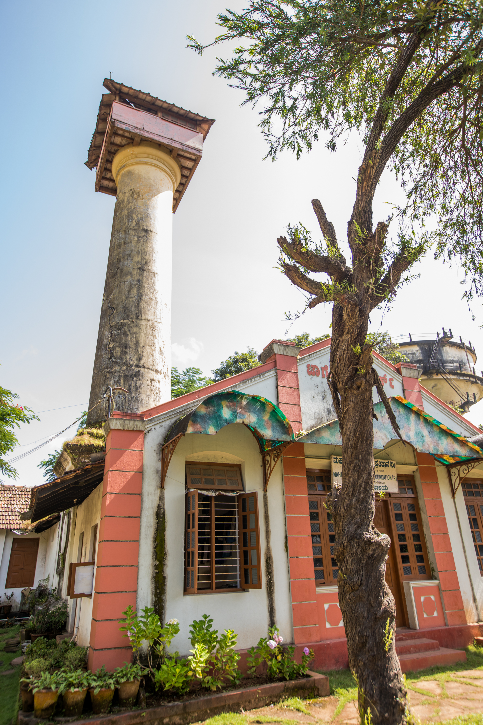 Light House at Tagore park